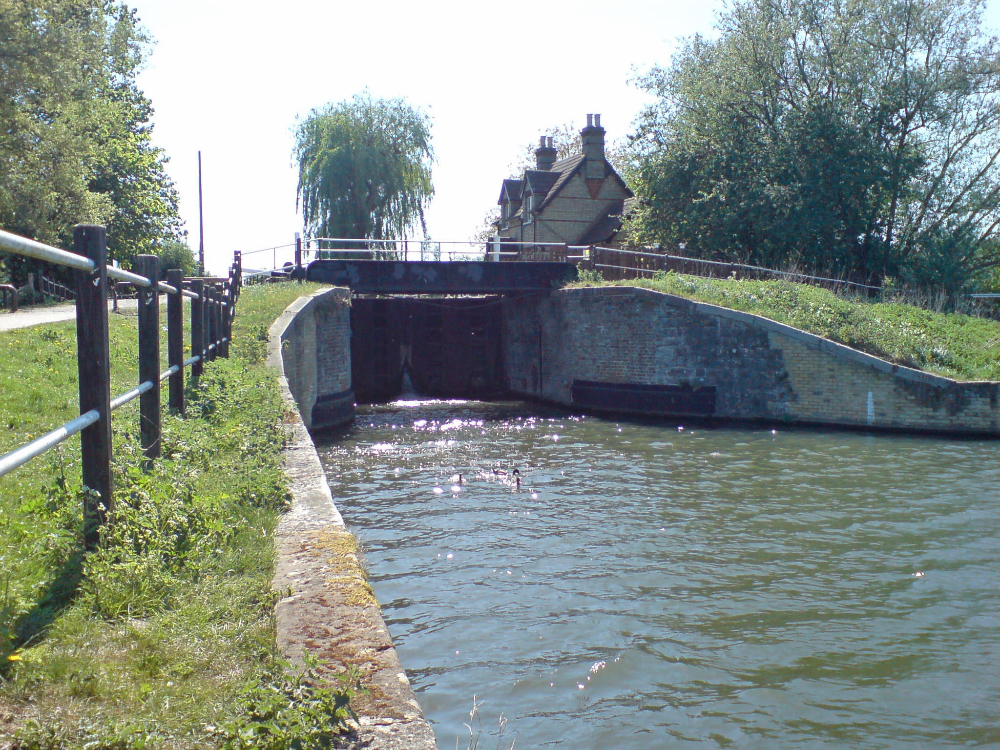 Author: Jamsta